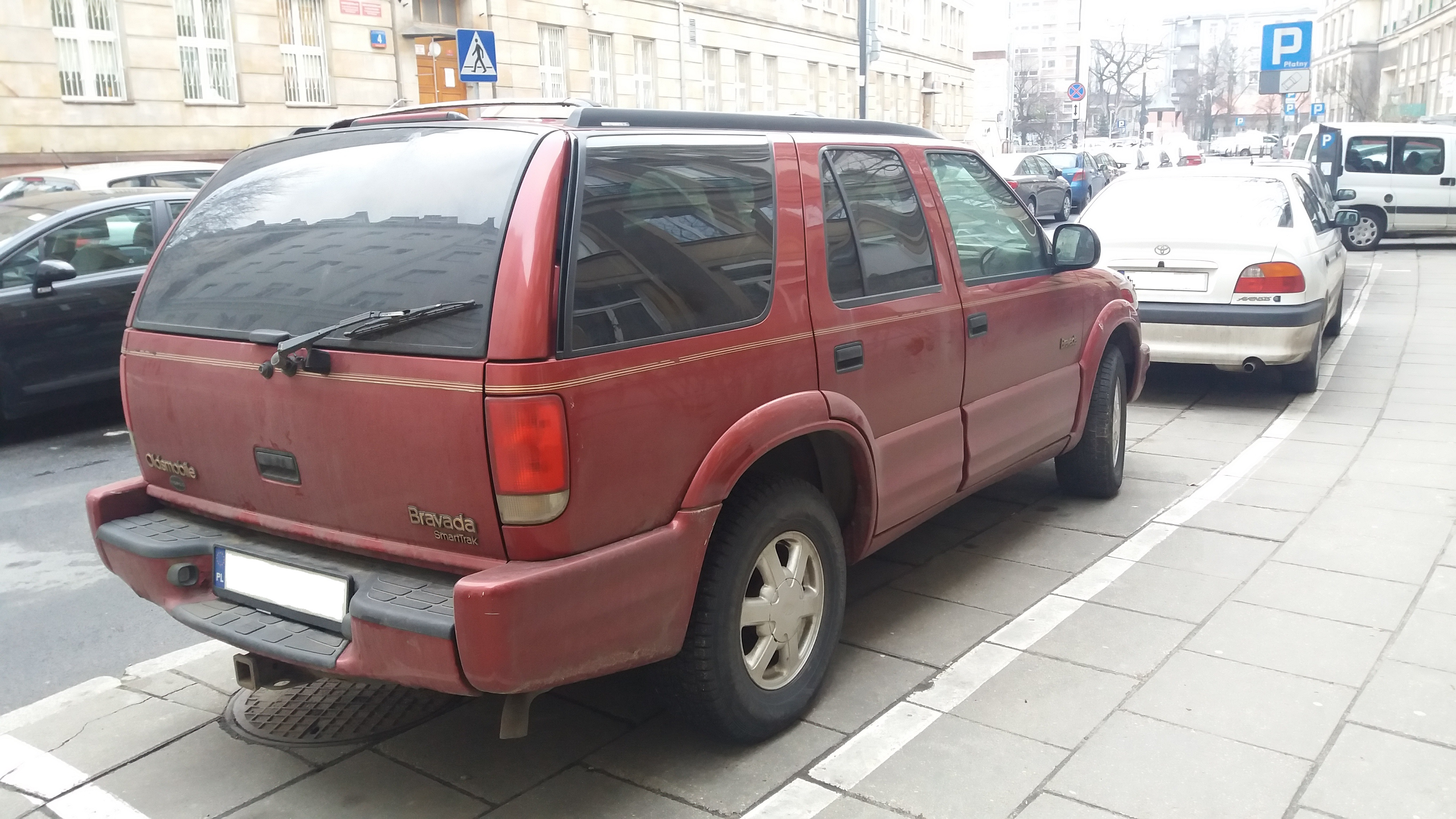 Oldsmobile Bravada in Warsaw